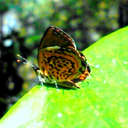 One of the Lycaenidae butterflies from KFRI (Kerala Forest Research Institute) Butterfly Garden.